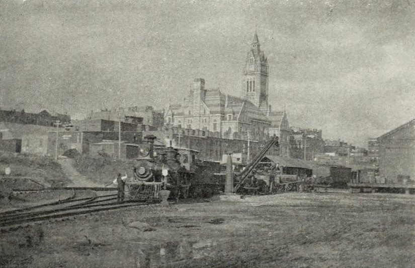 An engine for the New York, New Haven and Hartford Railroad in the 1890s on the NH&N Holyoke Branch (the present-day Pioneer Valley Railroad) parallel to Commercial Street. The City Hall is visible in the distance.